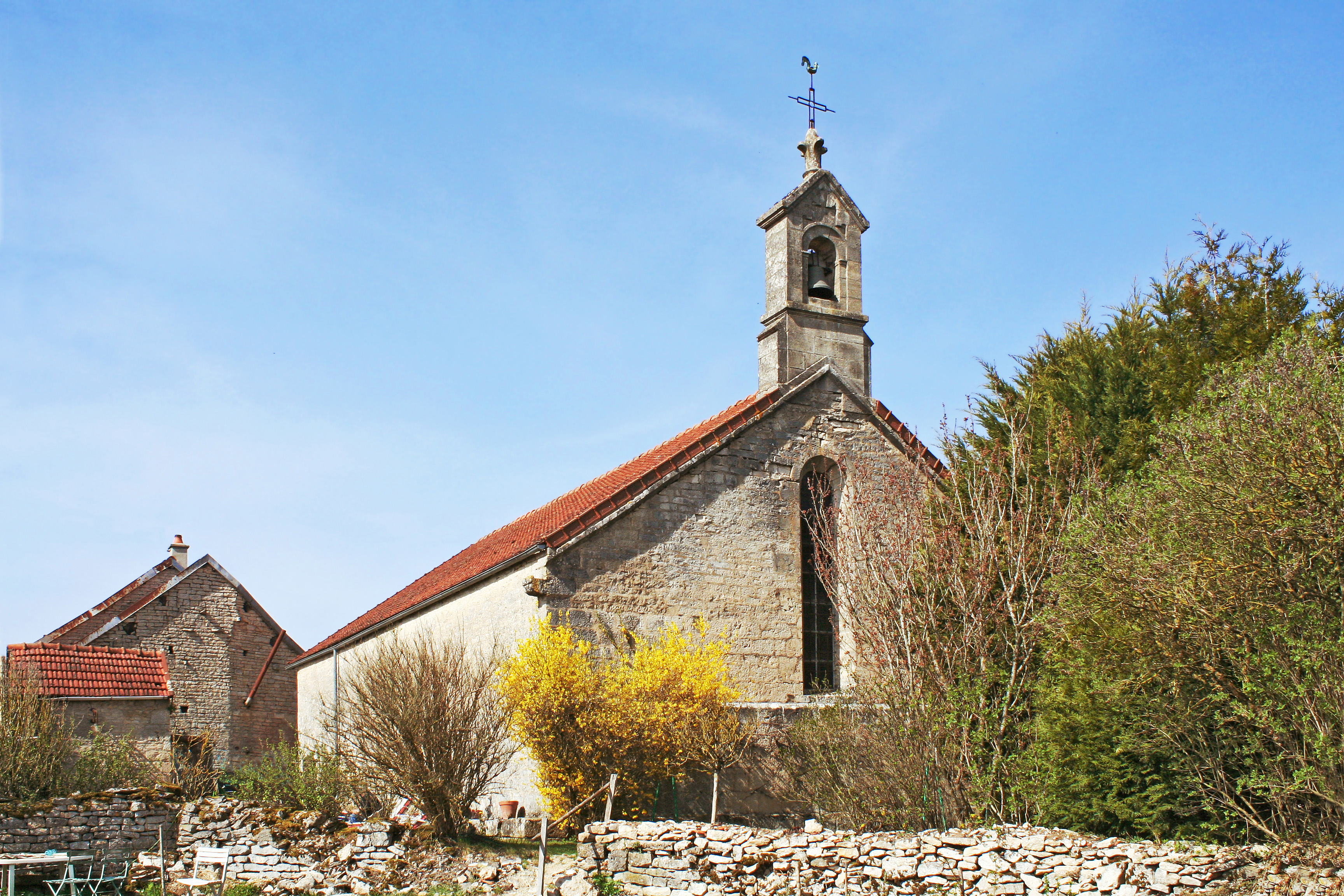 Church of Immaculate Conception in Semond